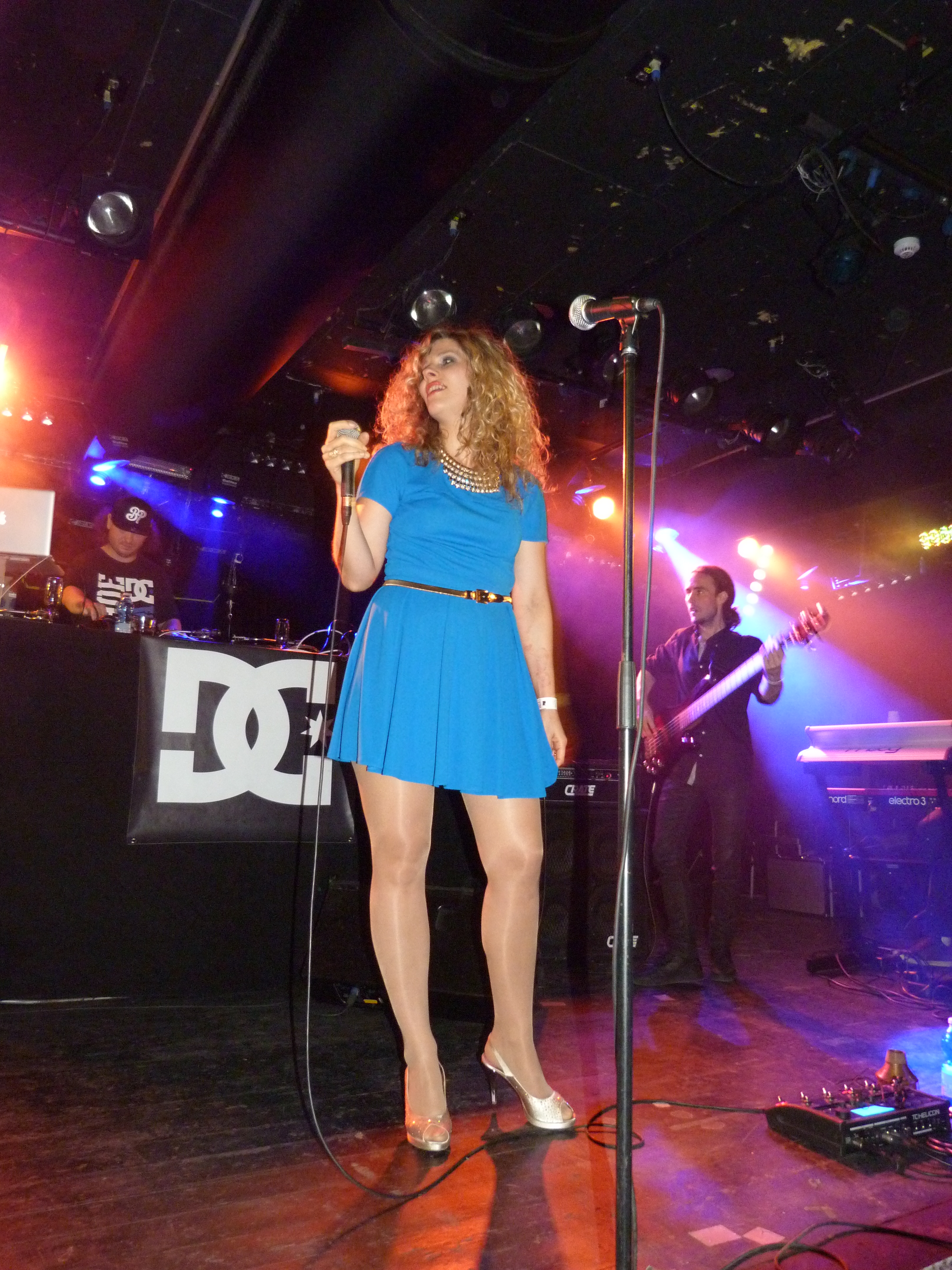 Live on the 31st of December, 2014. NYE. Budapest, Hungary. A38 ship. ©© Derzsi Elekes Andor, Budapest, 2015, Published in the Metapolisz DVD line. You are authorised to use this vid under Creative Commons – even for commercial, for profit purposes. The vid must be attributed to Derzsi Elekes Andor. All of the photos and vids in the Metapolisz DVD line are under Creative Commons and can be used even for commercial – for profit – purposes. Recommended Citation Derzsi Elekes Andor: Metapolisz DVD line